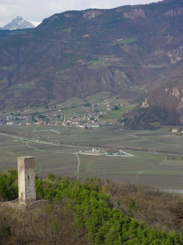 The Kreidenturm in Eppan in South Tyrol (Italy), Terlan in the background